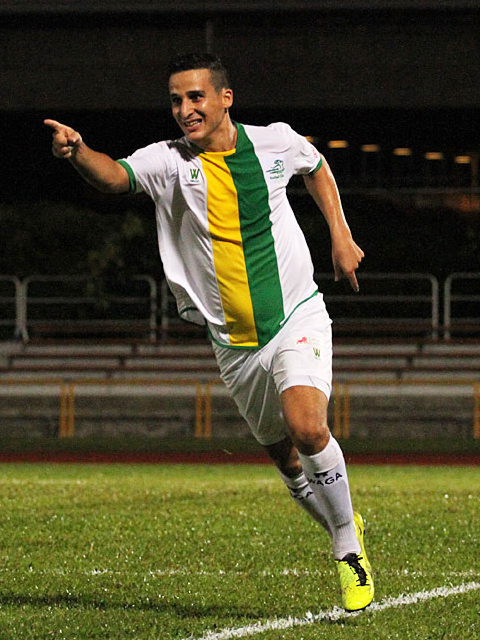 Khalid Hamdaoui turning out for Woodlands Wellington in a friendly match against SAFFC on 9th January 2013.